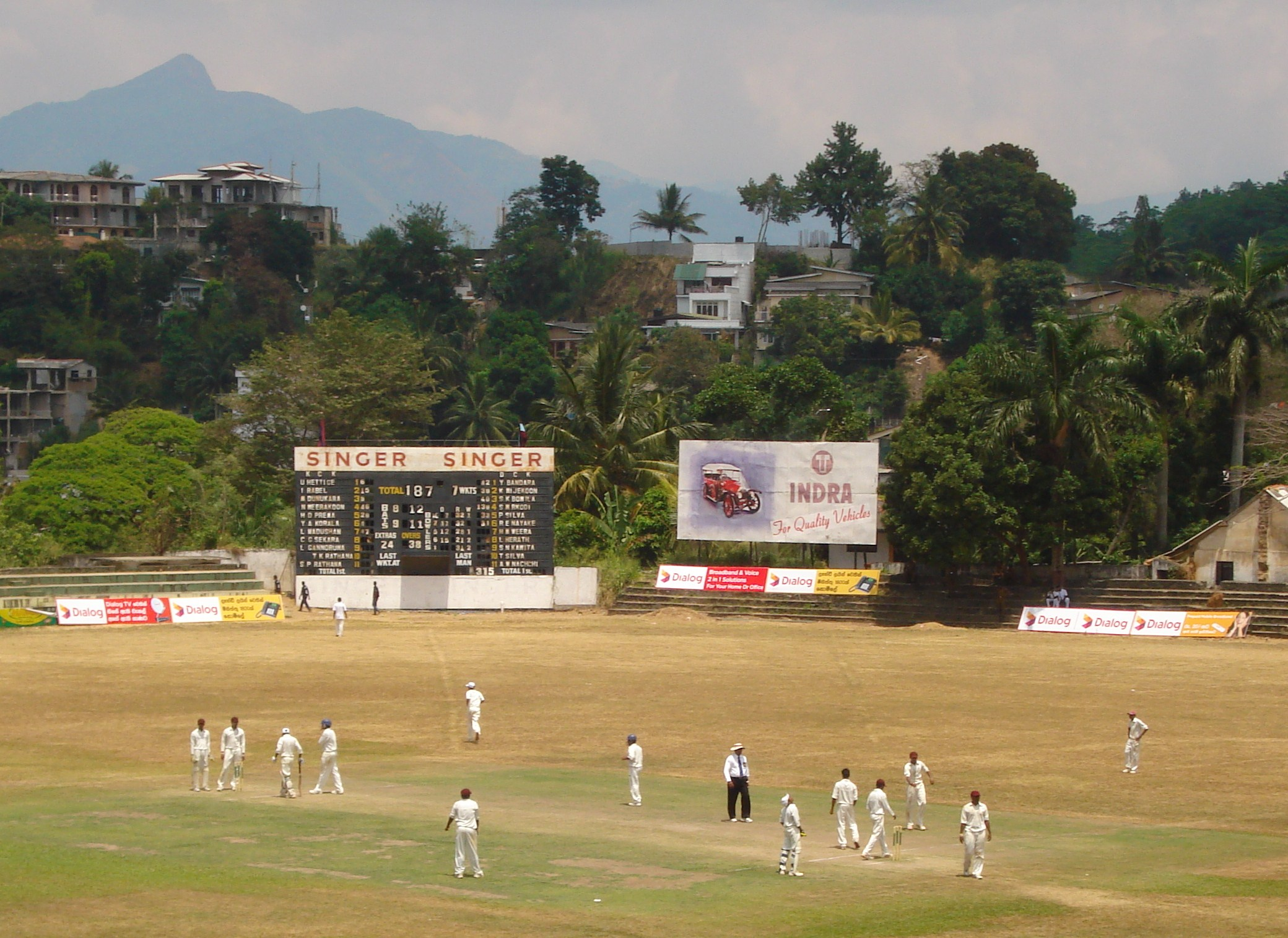 A photo taken at the Dharmaraja-Kingswood 104th encounter at Asgiriya stadium on 6th March 2010